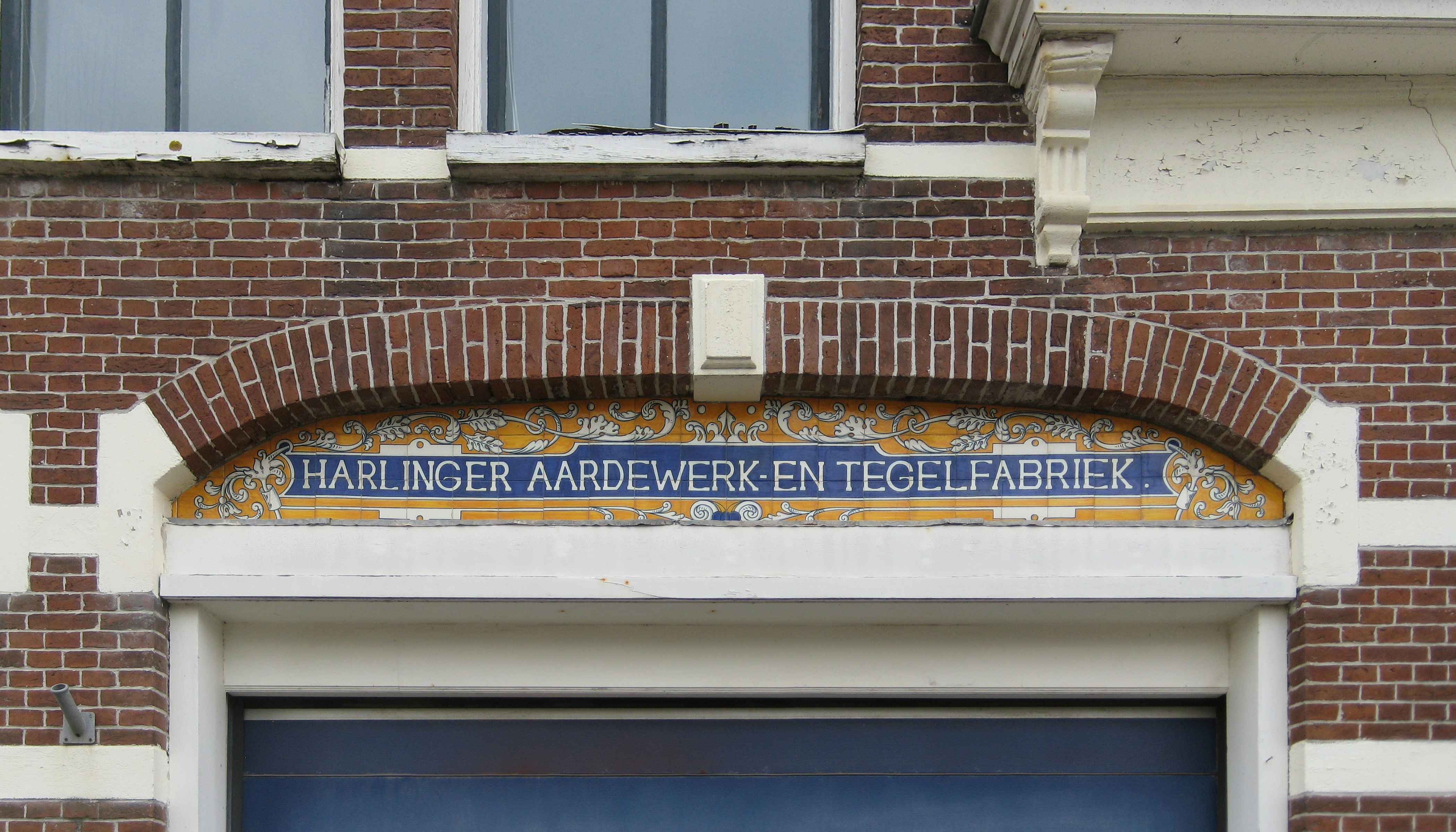 Tiles in the exterior wall of a building of the Harlinger Aardewerk- en Tegelfabriek in Harlingen, a city in the Dutch province of Fryslân.